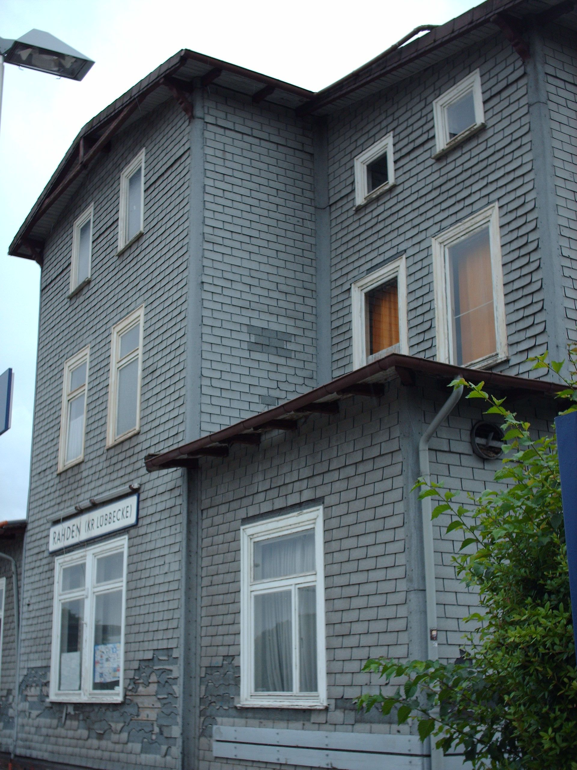 Rahden (Kr Lübbecke) station, Rahden, Germany check usage